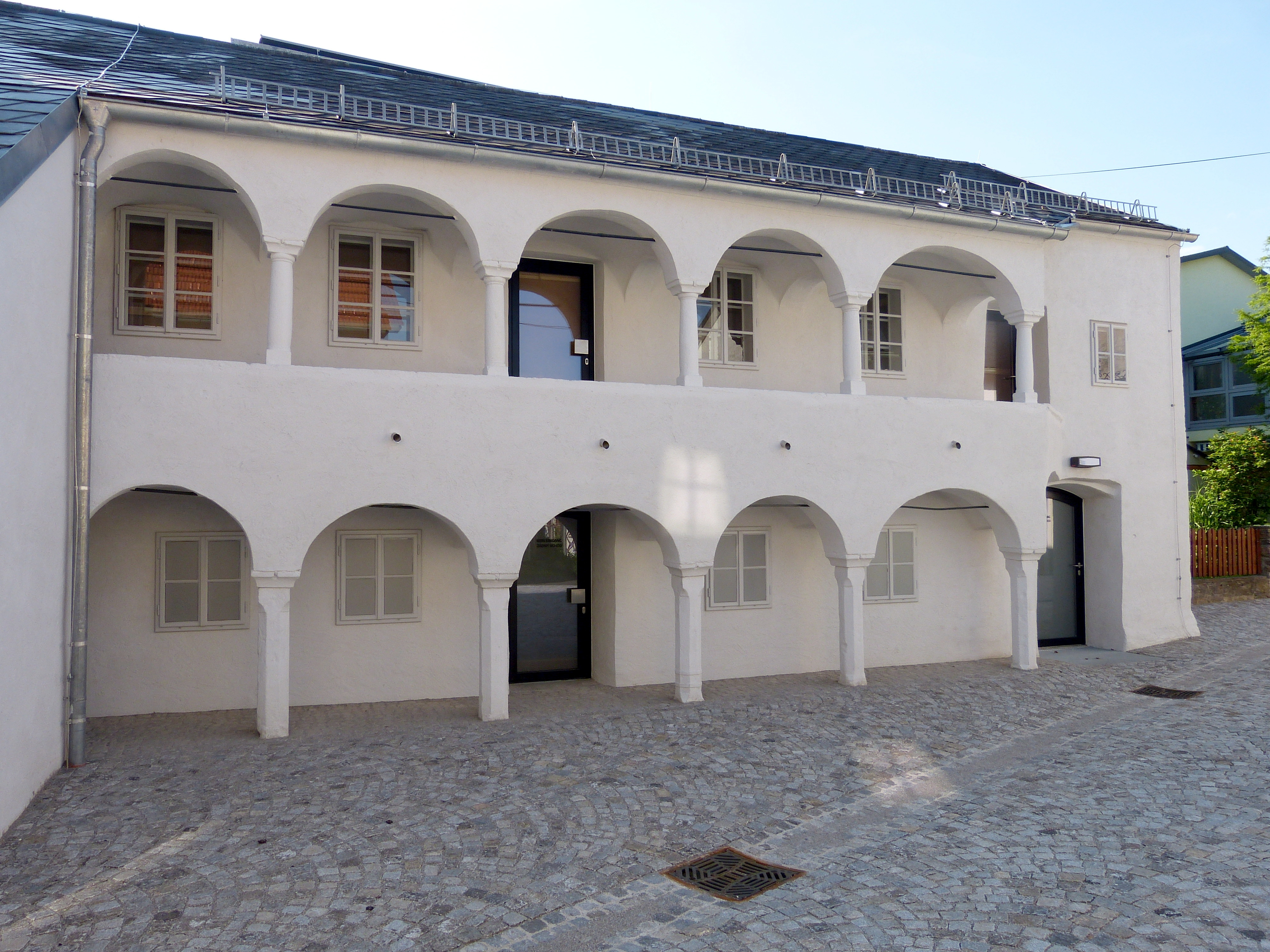 Bad Leonfelden ( Upper Austria ). Former citizens` hospital.